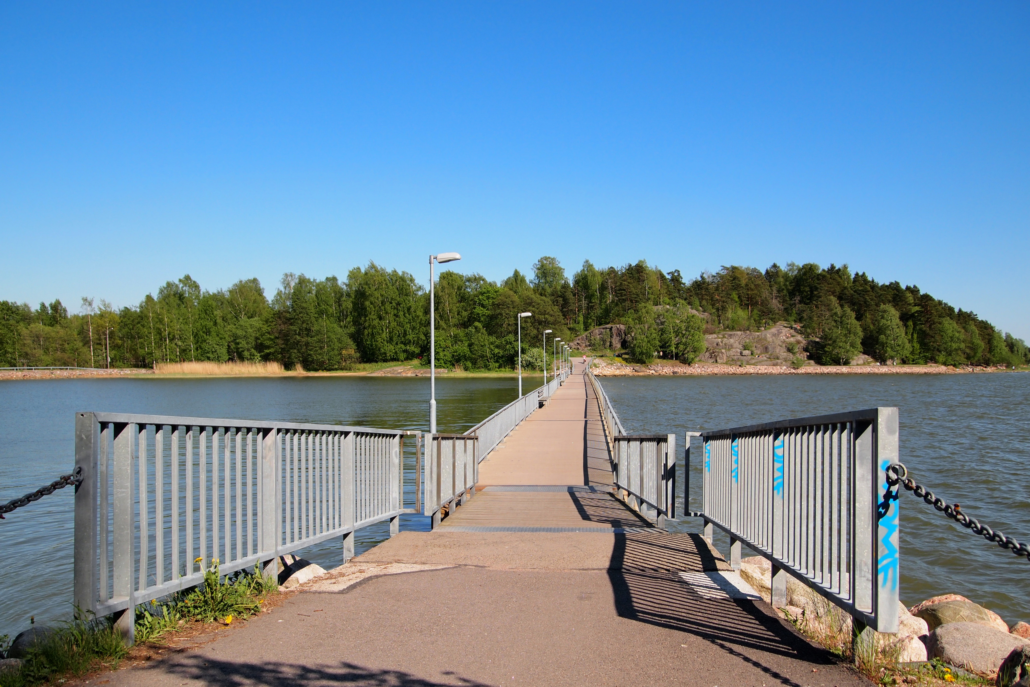 Bridge between the island Tarvo and park Lankiniemi, Helsinki. It's situated over the bay Laajalahti. This photograph was taken with an Olympus E-PL1.